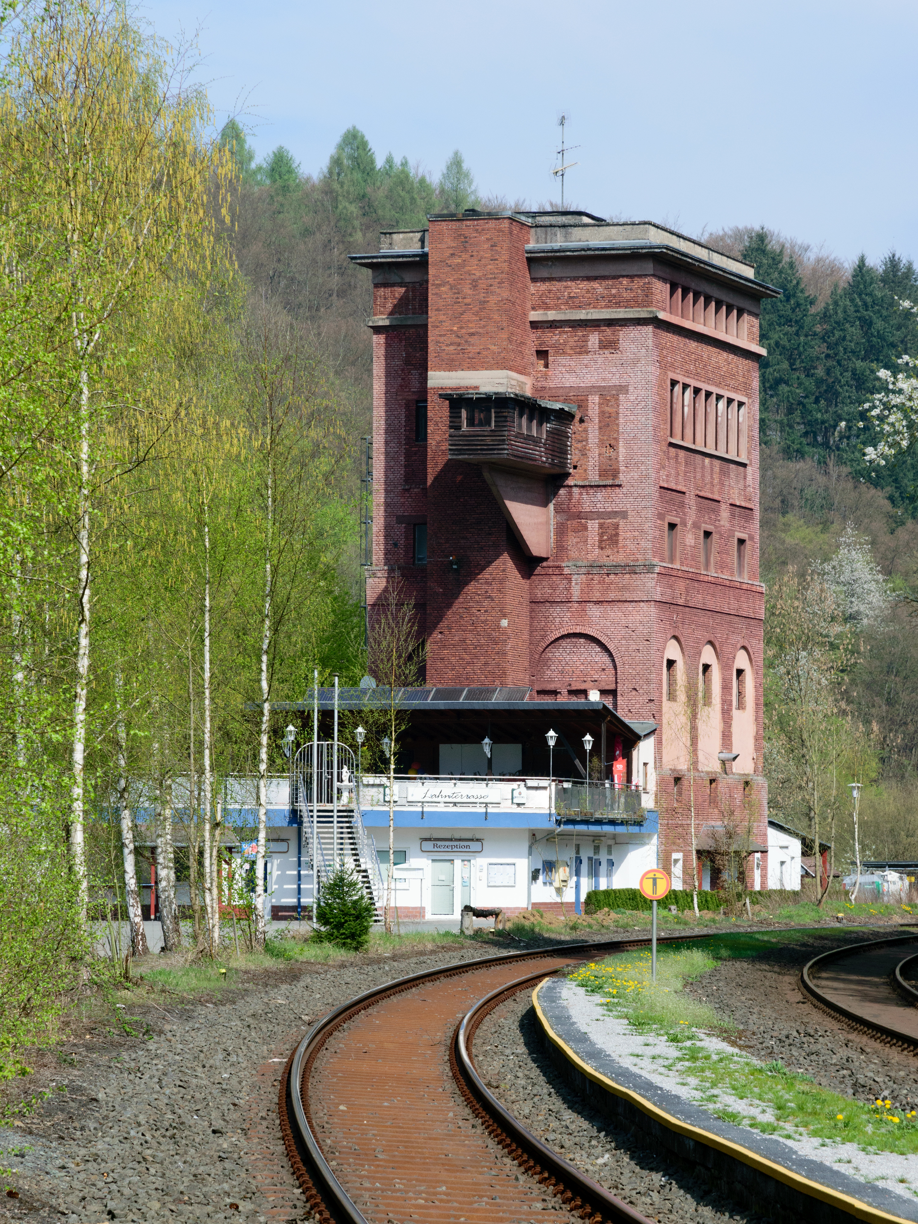 Former iron ore preparing and loading plant of Georg Josef pit in Gräveneck